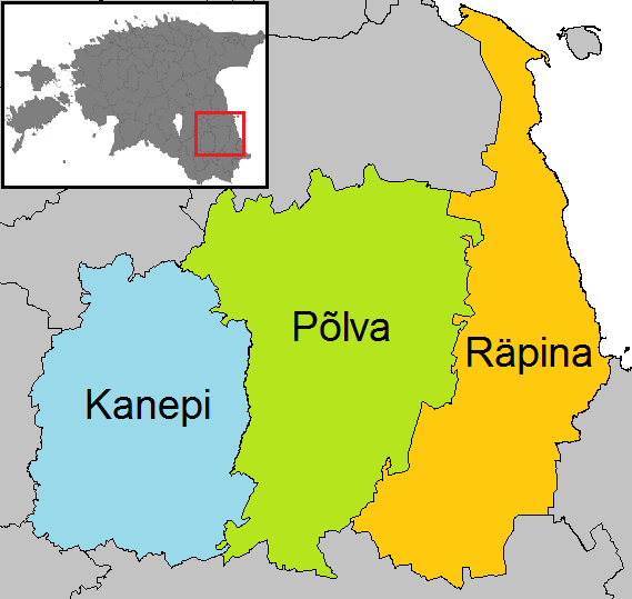 Map of the municipalities of Põlva County after the Administrative Reform of Estonia in 2017.